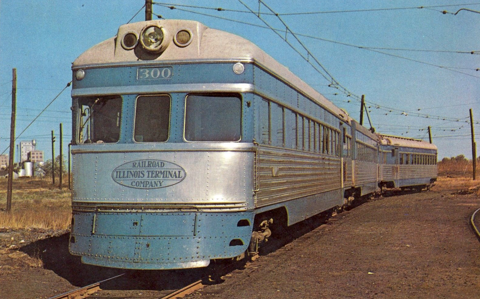 Photo of one of the 3 streamliners of Illinois Terminal Railroad.